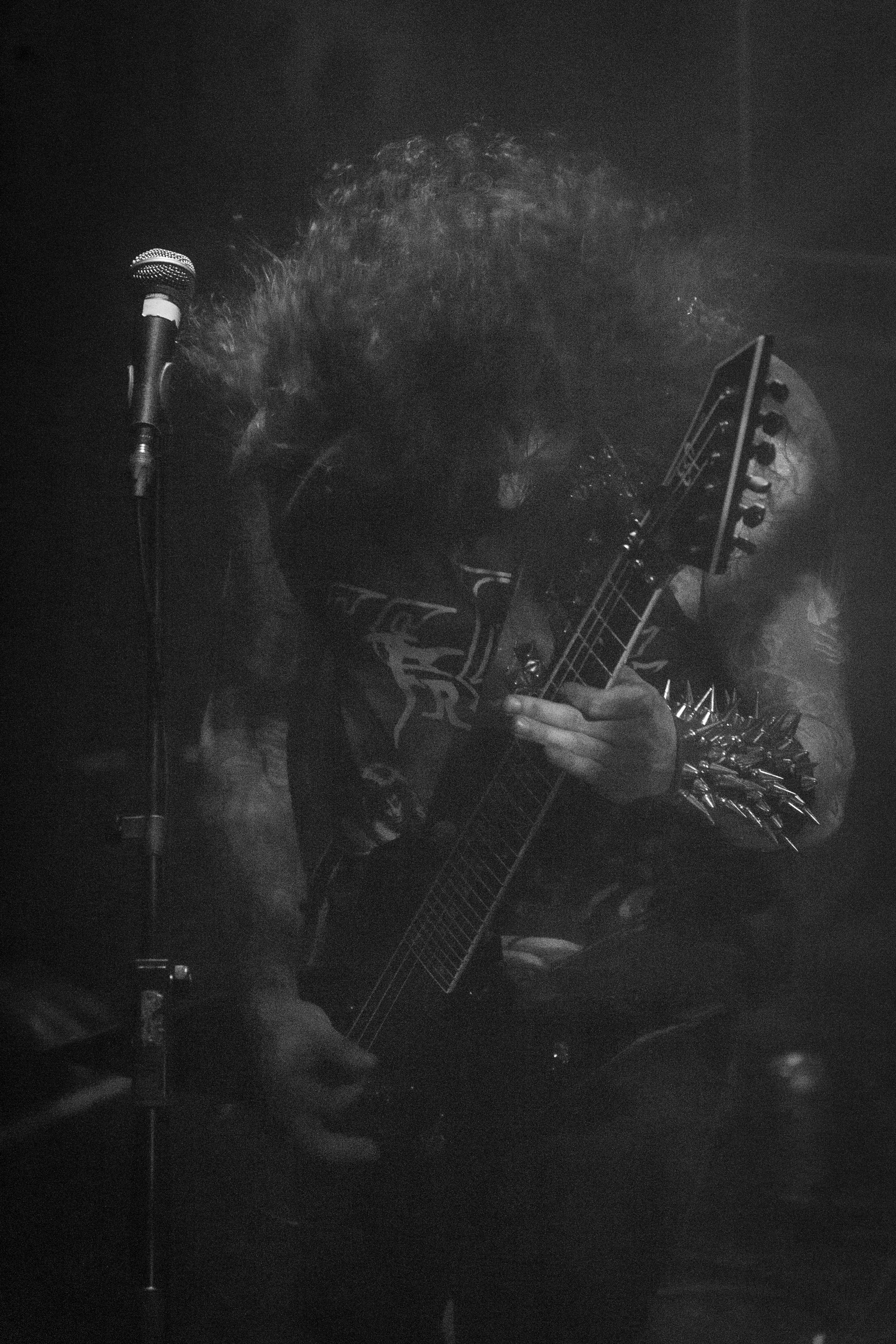 Goatwhore performing at Roadburn Festival, april 2015